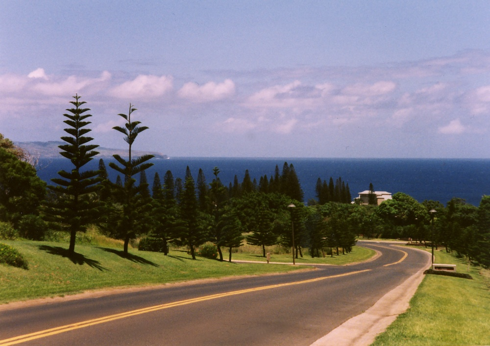 Subject: Maui in foreground, the ocean, and then a view of Molokai's eastern edge Date: Circa 1989 Place: From the top of Office Road (at Hwy 30), Kapalua, Maui, Hawaii - Facing north/northwest Photographer: Andwhatsnext Original 35mm photograph scanned Credit: Copyright (c) 1989 by Nancy J Price